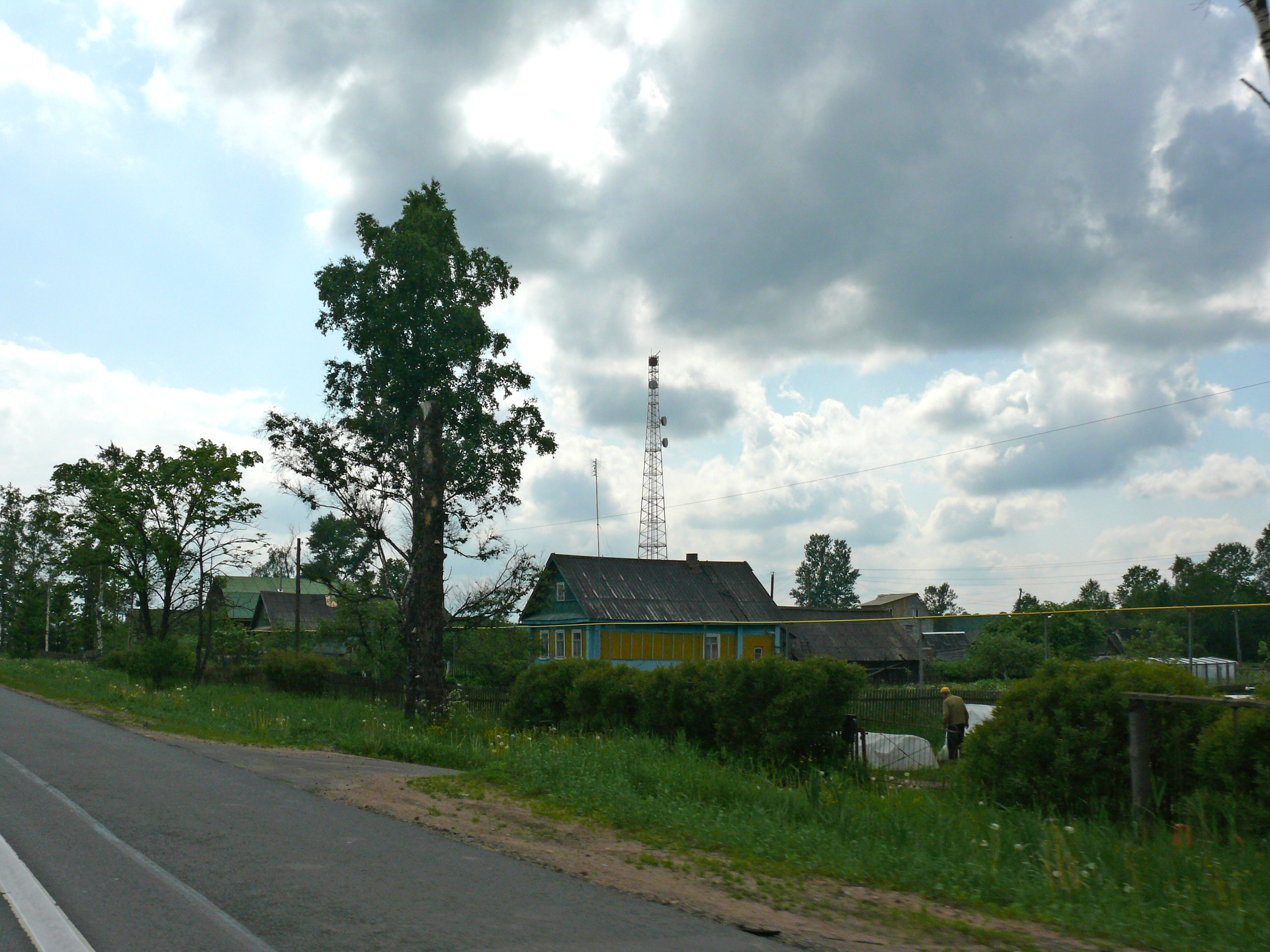 Tregubovo village. Chudovsky district, Novgorod oblast, Russia